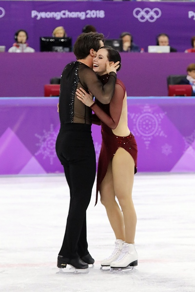 Tessa Virtue and Scott Moir at the 2018 Winter Olympic Games in PyeongChang